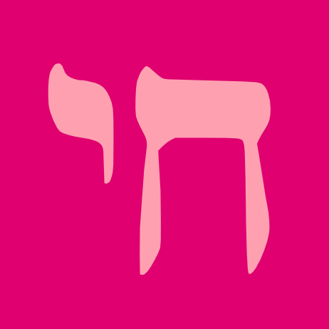 A "chai", symbol and word for "life" in Jewish culture. It's used as a symbol of faith among Jewitches, adherents of Jewitchery (Jewish Neopaganism). (Actually, version of standard Jewish Chai/Hai symbol.)